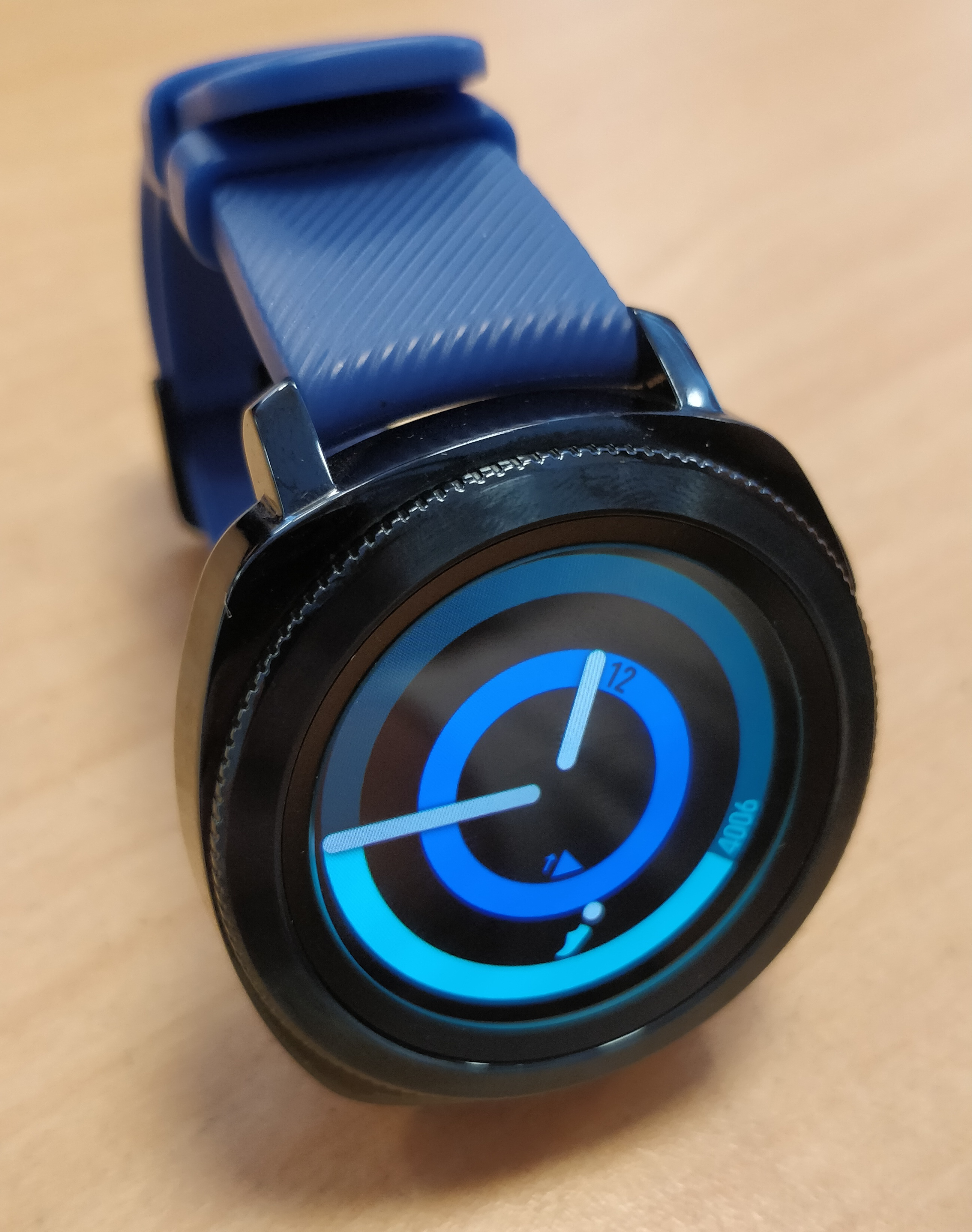 Samsung Gear Sport on table with default watchface.